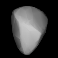 3D convex shape model of 1578 Kirkwood, computed using light curve inversion techniques. J. Hanuš, J. Ďurech, M. Brož, B. D. Warner (June 2011). "A study of asteroid pole-latitude distribution based on an extended set of shape models derived by the lightcurve inversion method". Astronomy and Astrophysics 530: A134. ISSN 0004-6361. arXiv